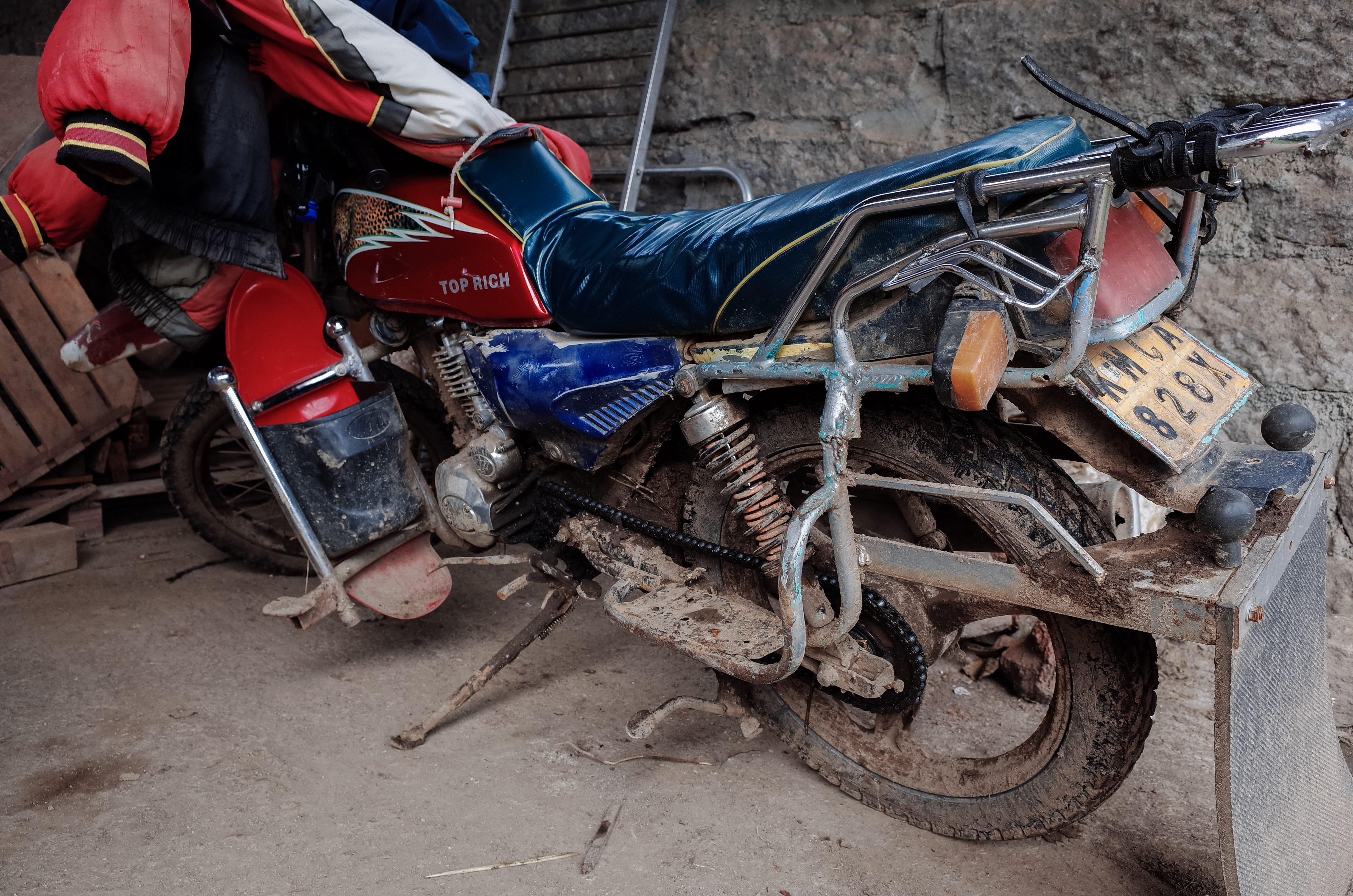 This is an image with the theme "Africa on the Move or Transport" from: Kenya